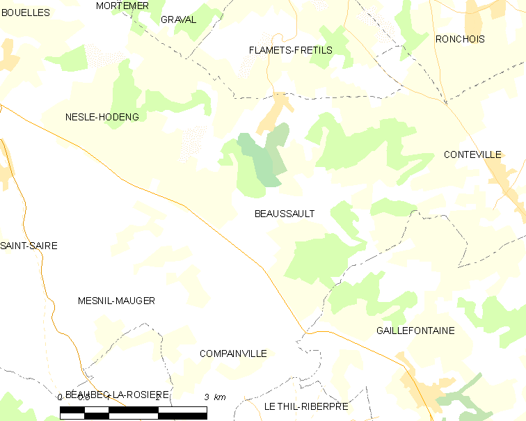 Map of French municipality Beaussault